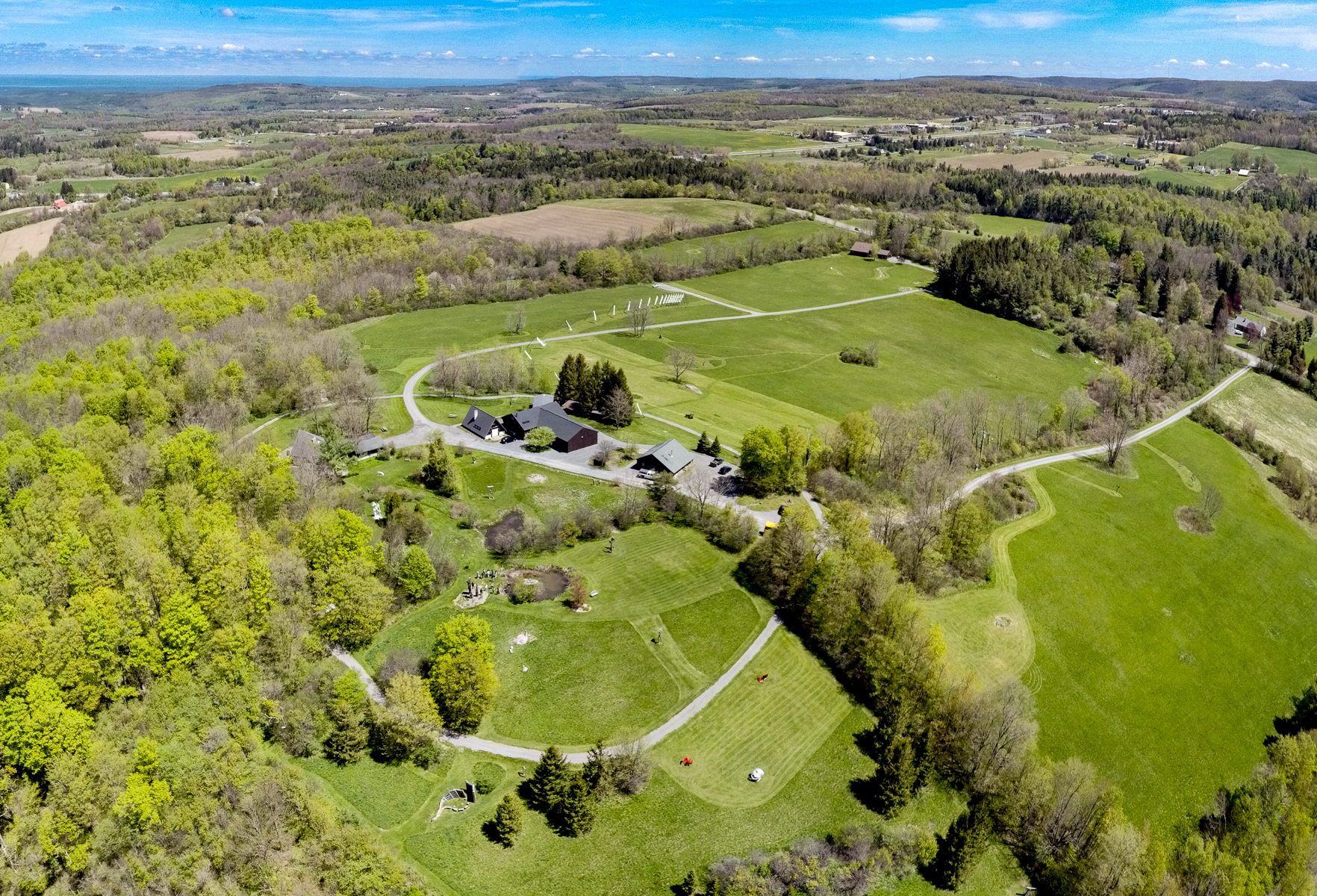 Aerial image of the Art Park